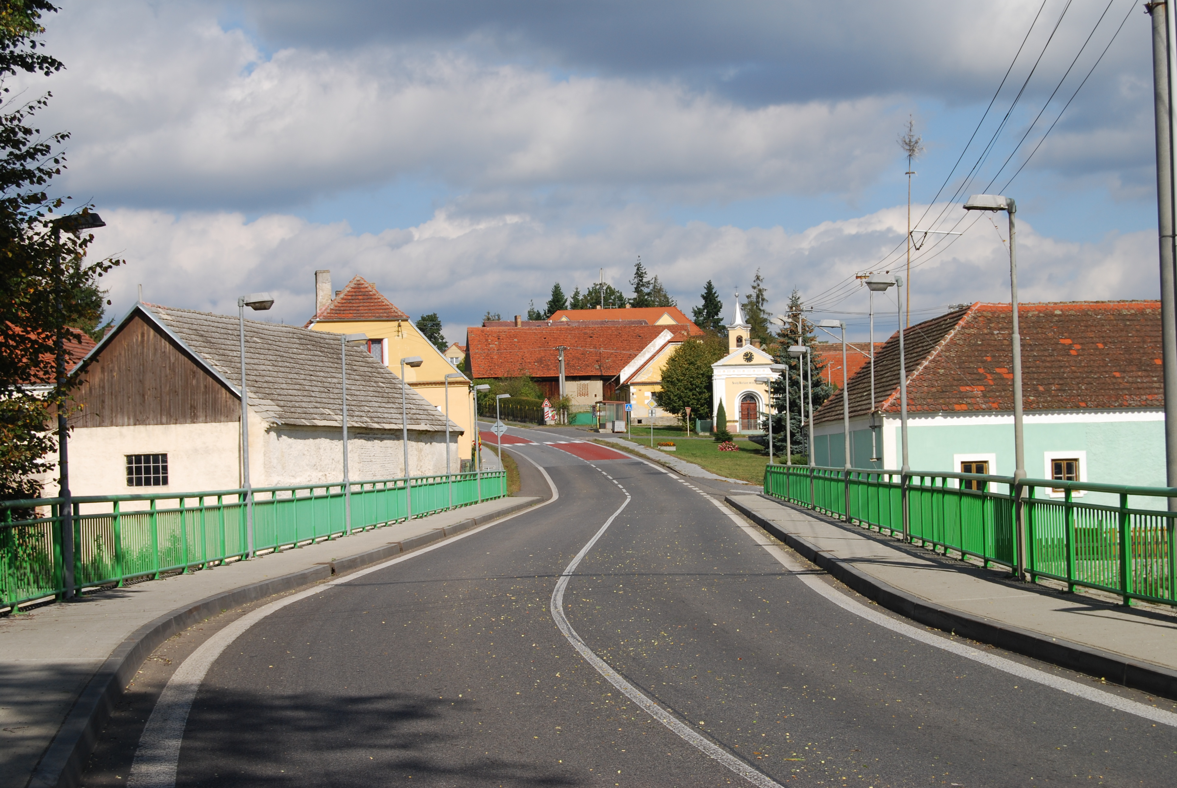 Tchořovice village in Strakonice District, Czech Republic. Bridge over upper part od Dolejší pond